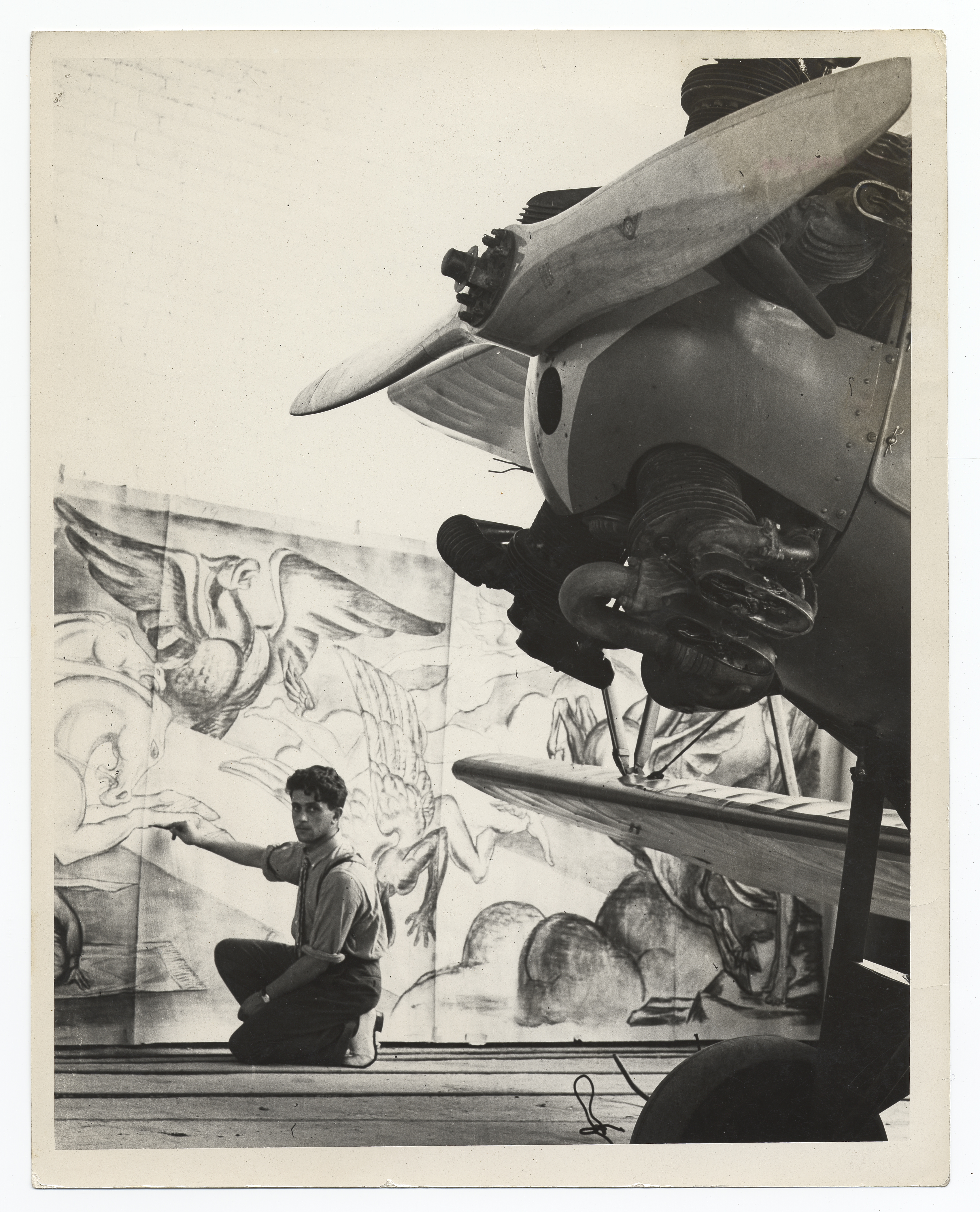 Chodorow at work on his mural. Identification on verso (handwritten and stamped): W.P.A. Federal Art Project, 6 East 39th St., New York, N.Y. Negative No: SF-118; Title: Aviator, Mr. Choderow [sic] at work; Artist: Eugene Choderow and August Henkel, Oil on Canvas, Floyd Bennett Airport. Identification on accompanying label (typewritten): Eugene Chodorow at work on a panel of his mural, PRIMITIVE CONCEPTS OF AVIATION, was painted under the direction of the WPA Federal Art Project. It has just been installed in the Administration Building of the Floyd Bennett Airport in Brooklyn.